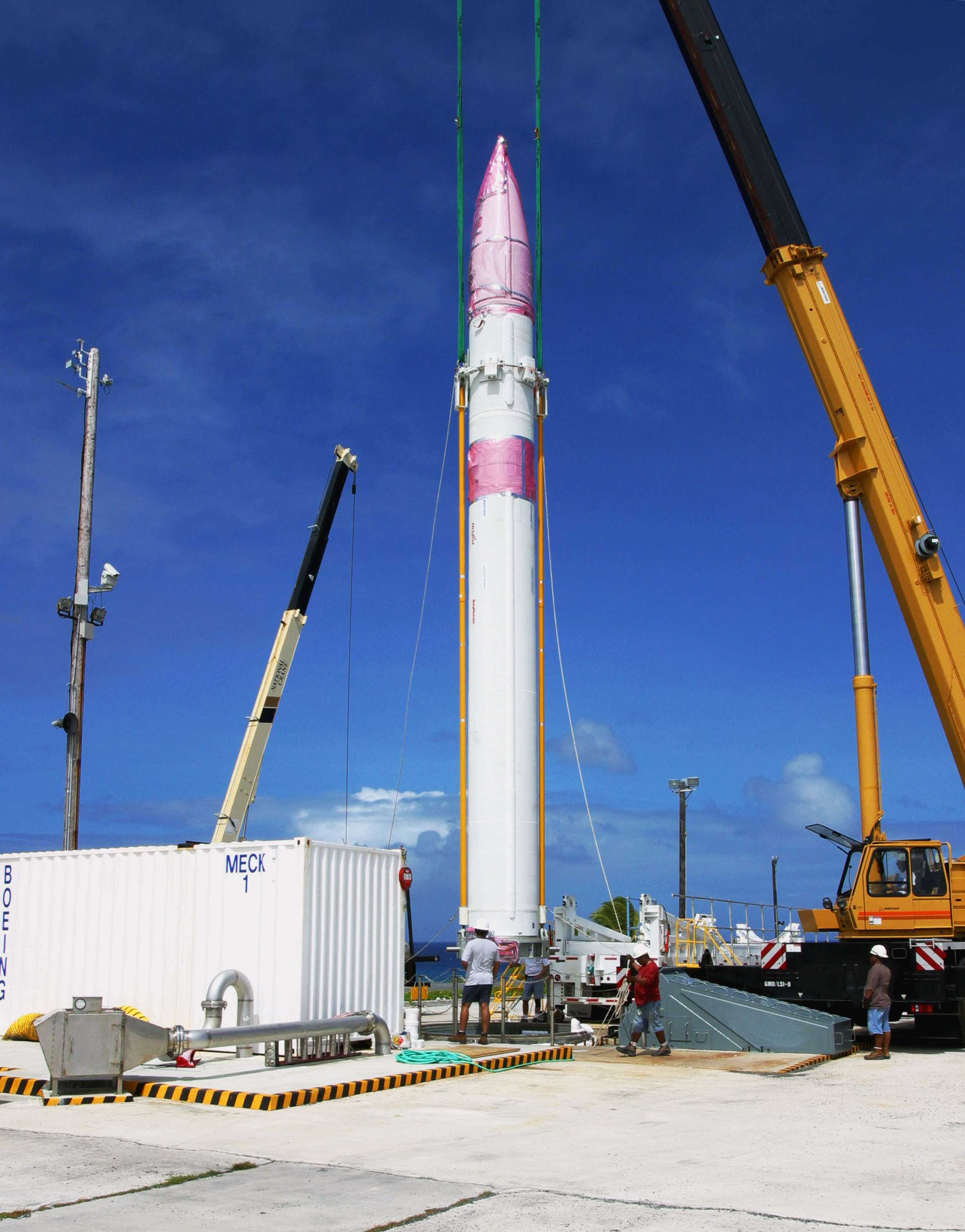 Ground-Based Midcourse Defense (GMD) interceptor being loaded into silo. 3 stage OBV (orbital boost vehicle) design as of 2004. Library of congress designation for this is GMD boost vehicle.